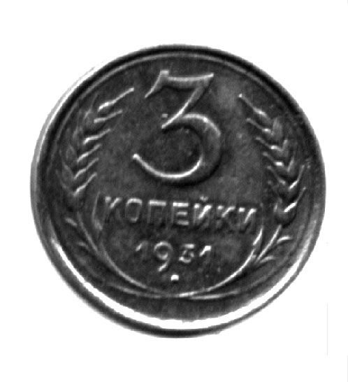 Three copecks made from a bell copper, 1931 (Soviet Union)